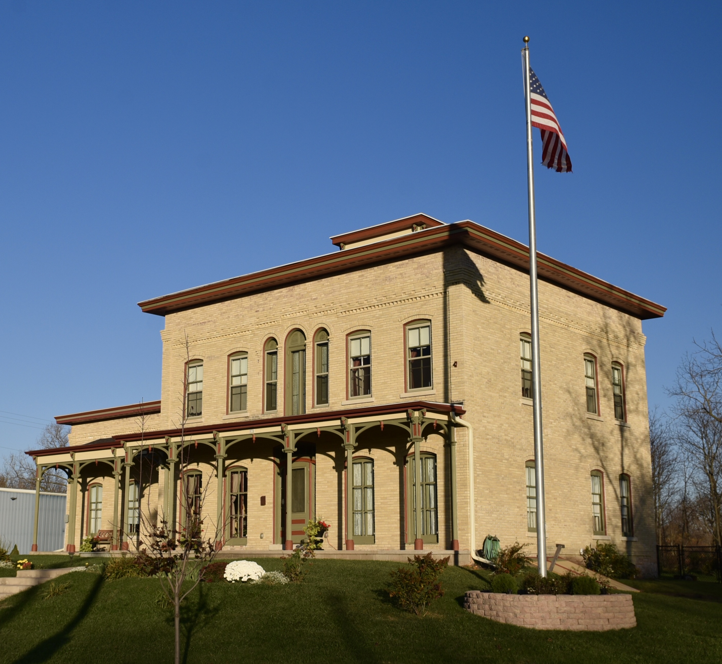 Henry and Barbara Bierbaurer House